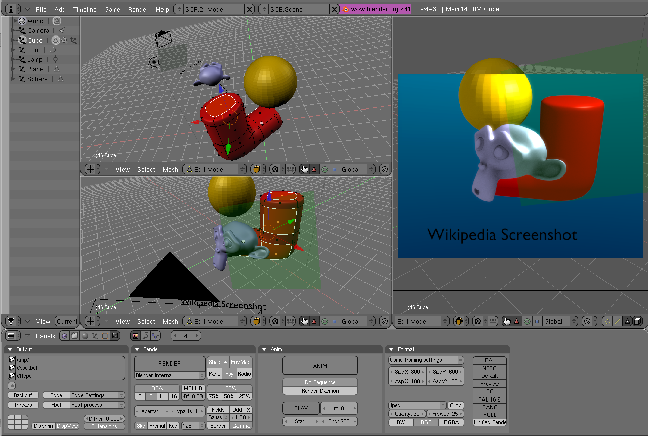 Screenshot of Blender 2.41. Blender is in the GPL, therefore I can create a screenshot and license it under the GFDL